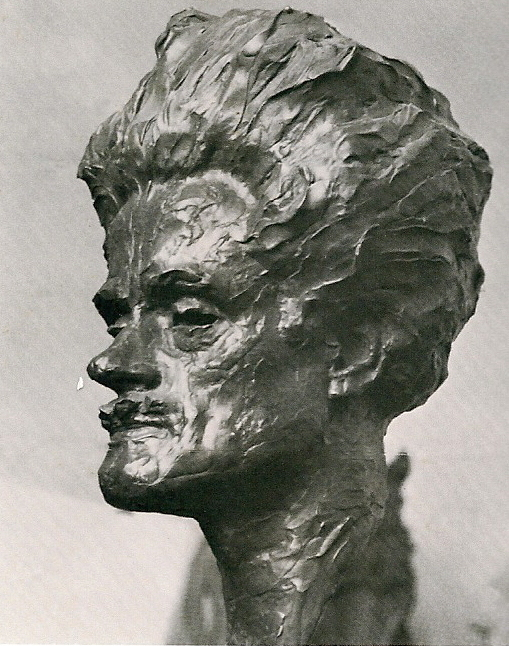 Hugh MacDiarmid, sculpted by William Lamb in Montrose (Flipped version of [File:Lamb-Hugh MacDiarmid.jpg])